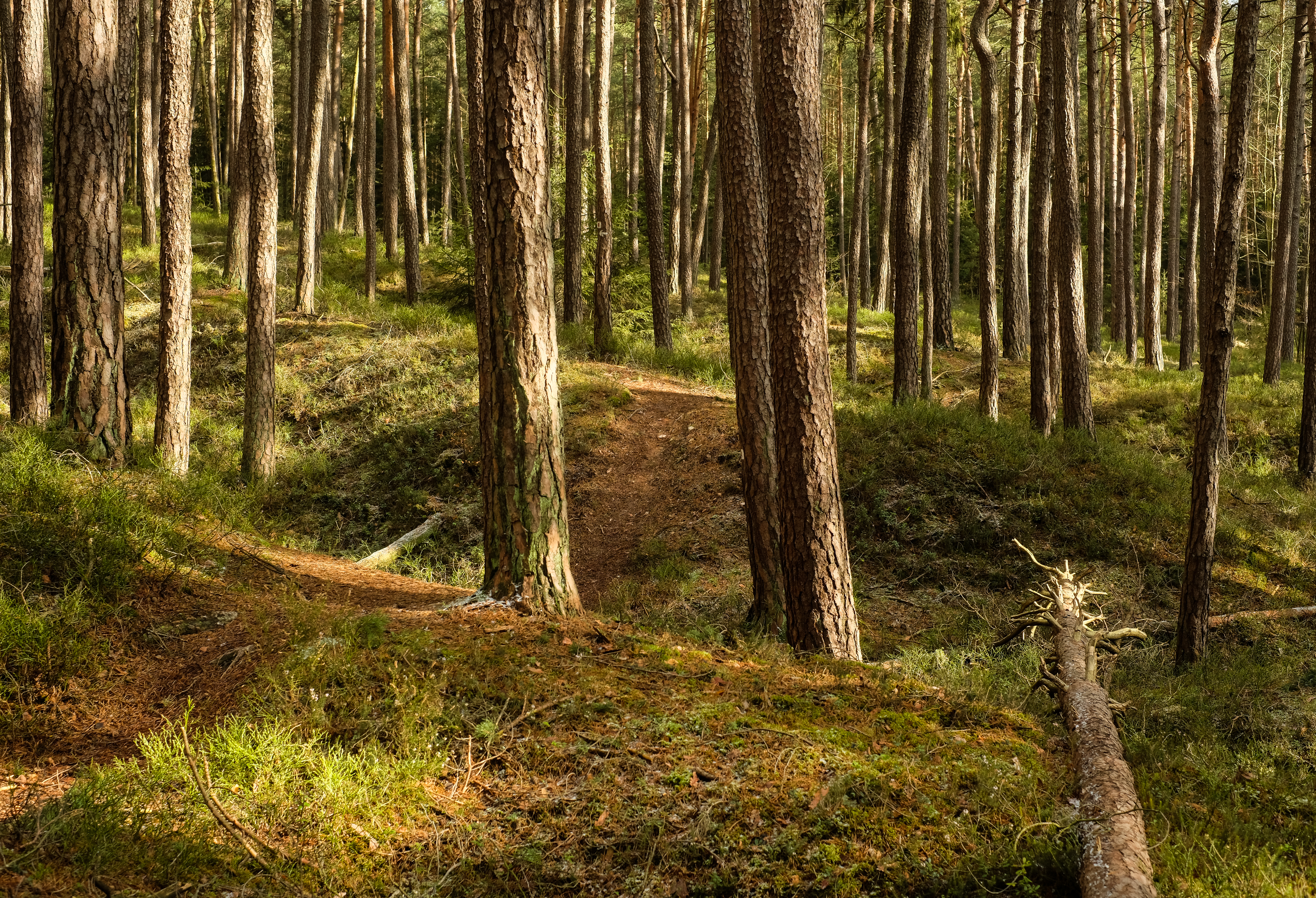 Trade route Goldene Straße (golden street), between Prague an Nuremberg, sunken road near Hirschau, district Amberg-Sulzbach, Bavaria, Germany